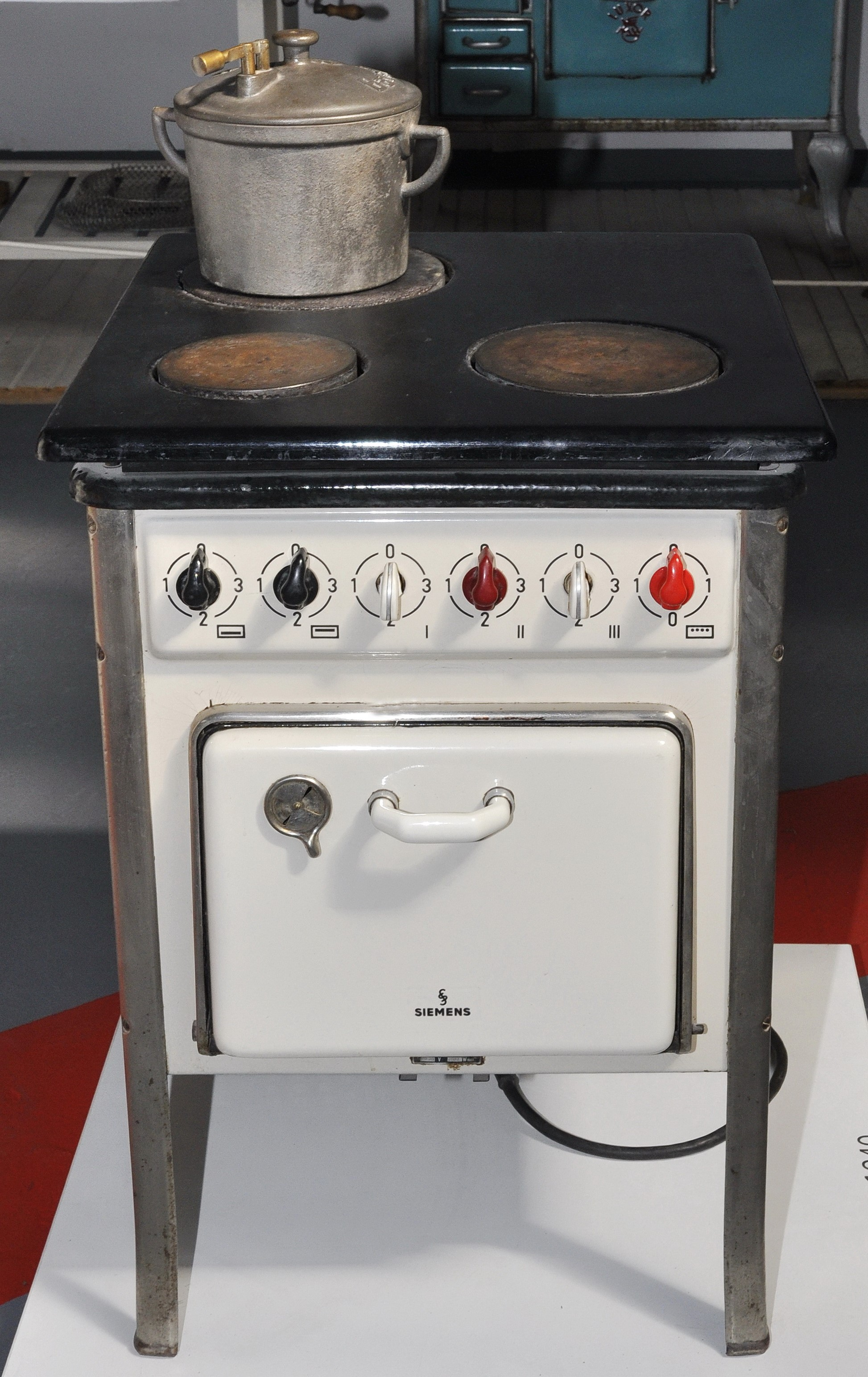 Electric stove Siemens from 1940. Now located in Museum of Science and Technology Belgrade.